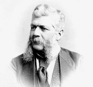 James M. Williams, Member for Hamilton, Ontario Legislative Assembly Legislative Assembly, Member for Niagara